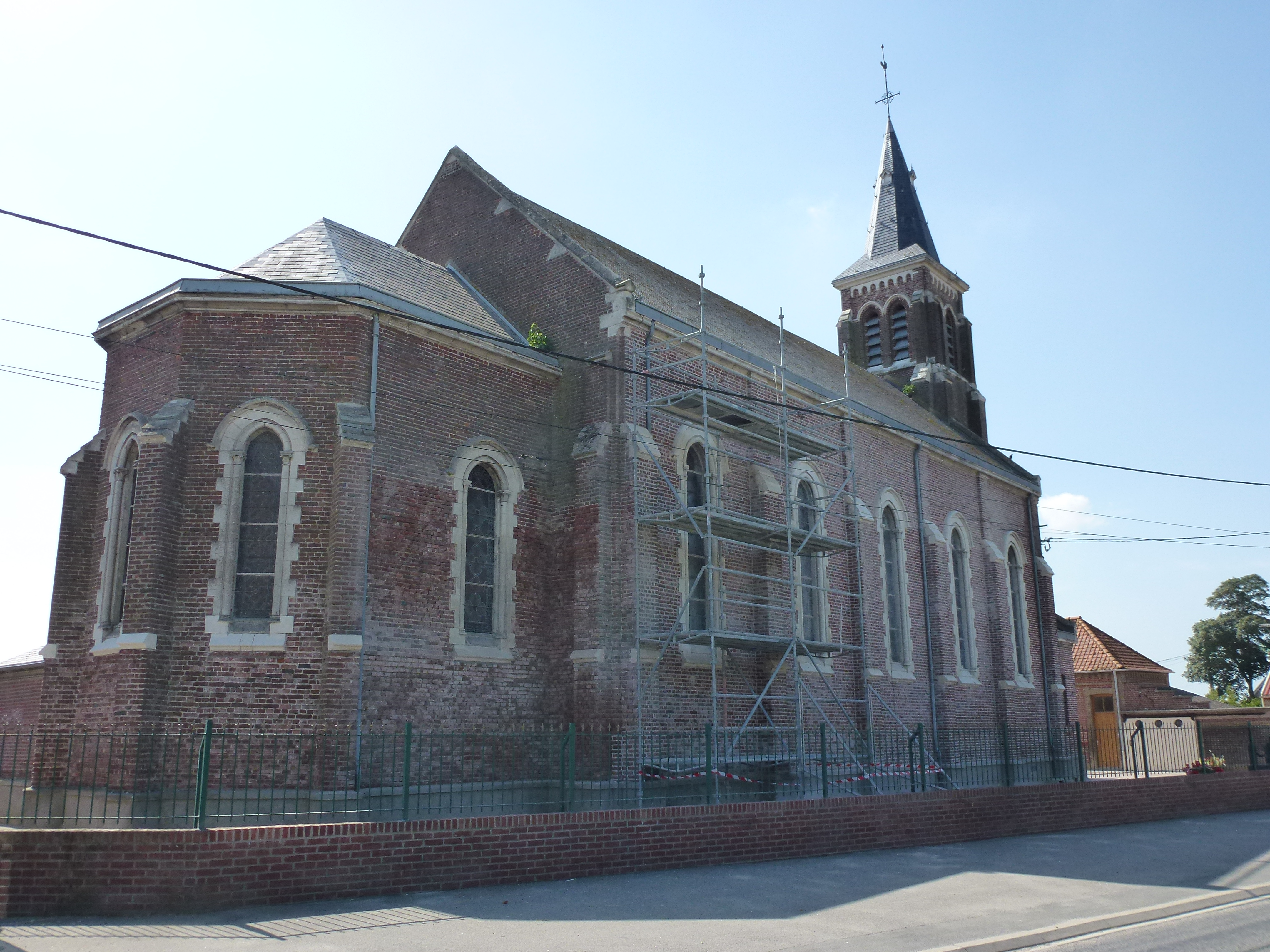 Saint-Omer-Capelle (Pas-de-Calais) église Saint-Omer